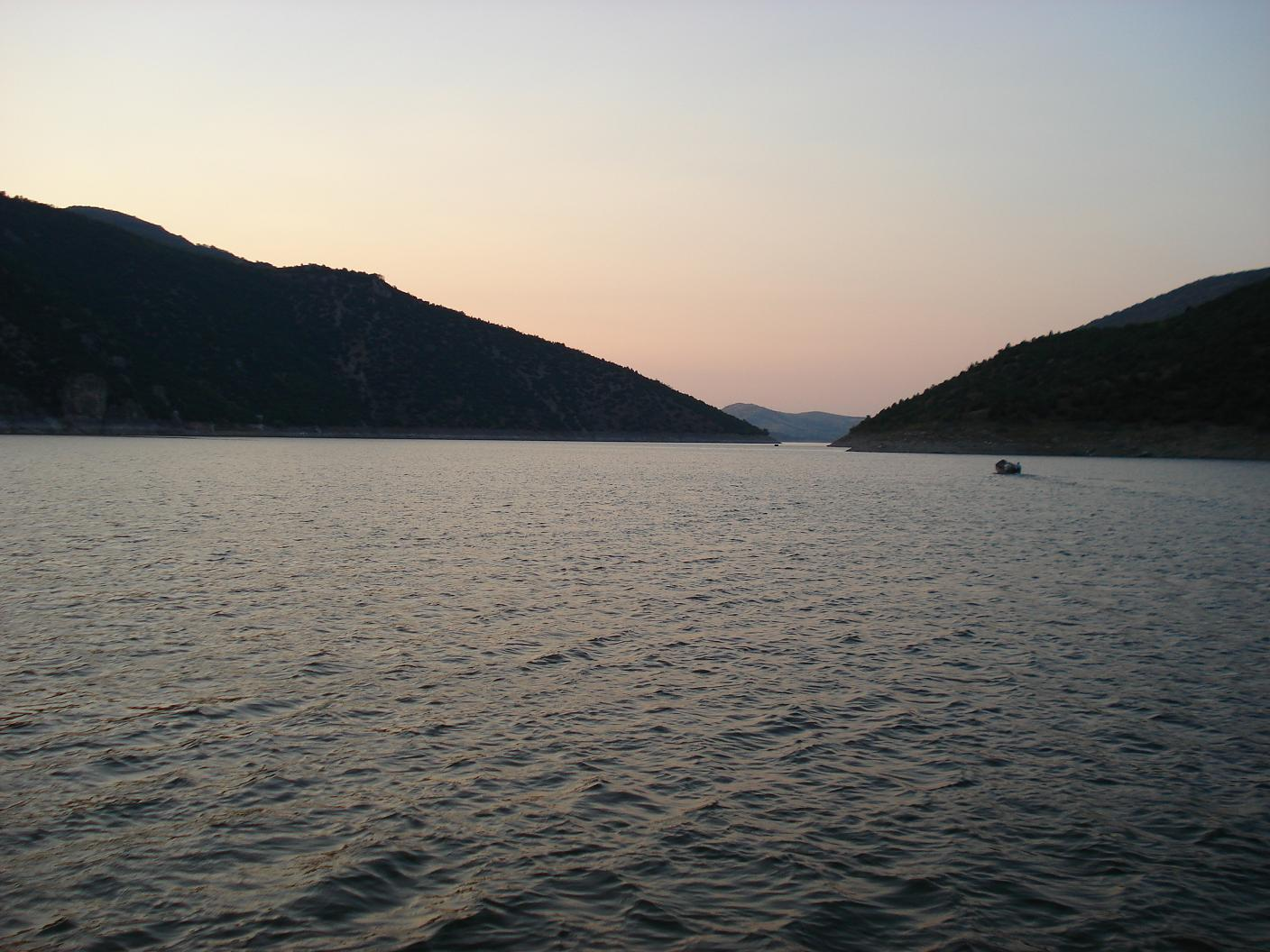 Sunset at Lake Tikves